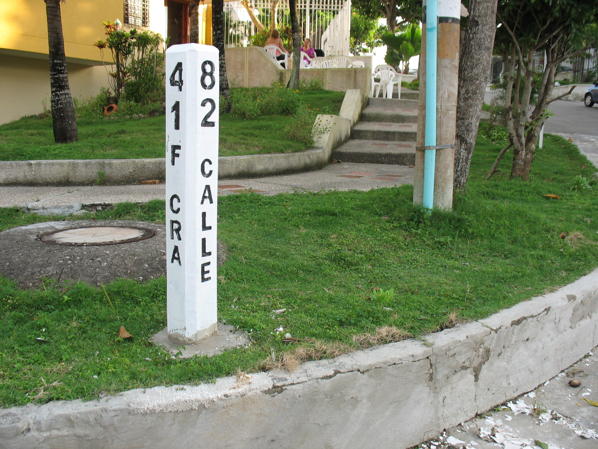 Street marker at Barranquilla